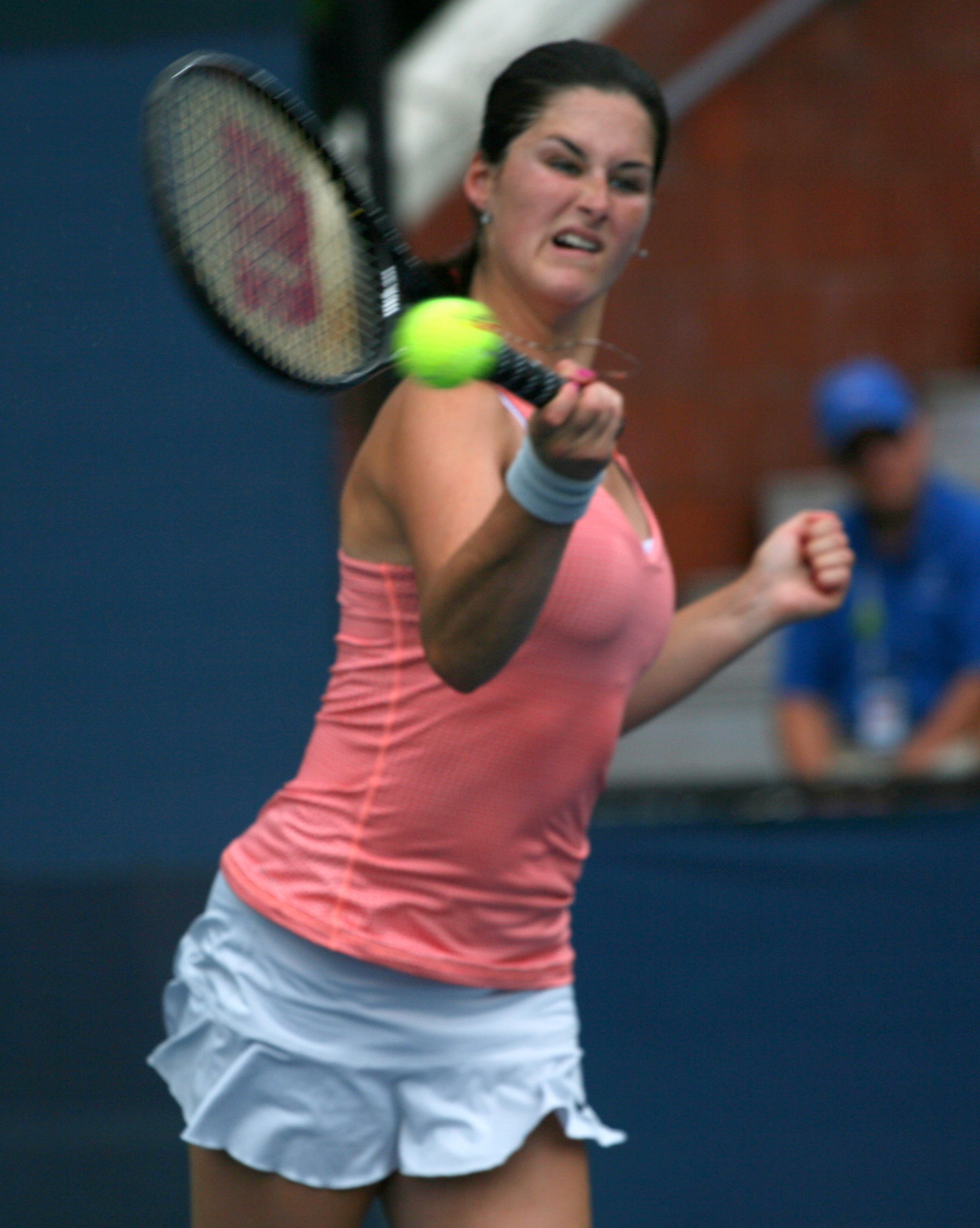 Jamie Loeb at the 2013 US Open